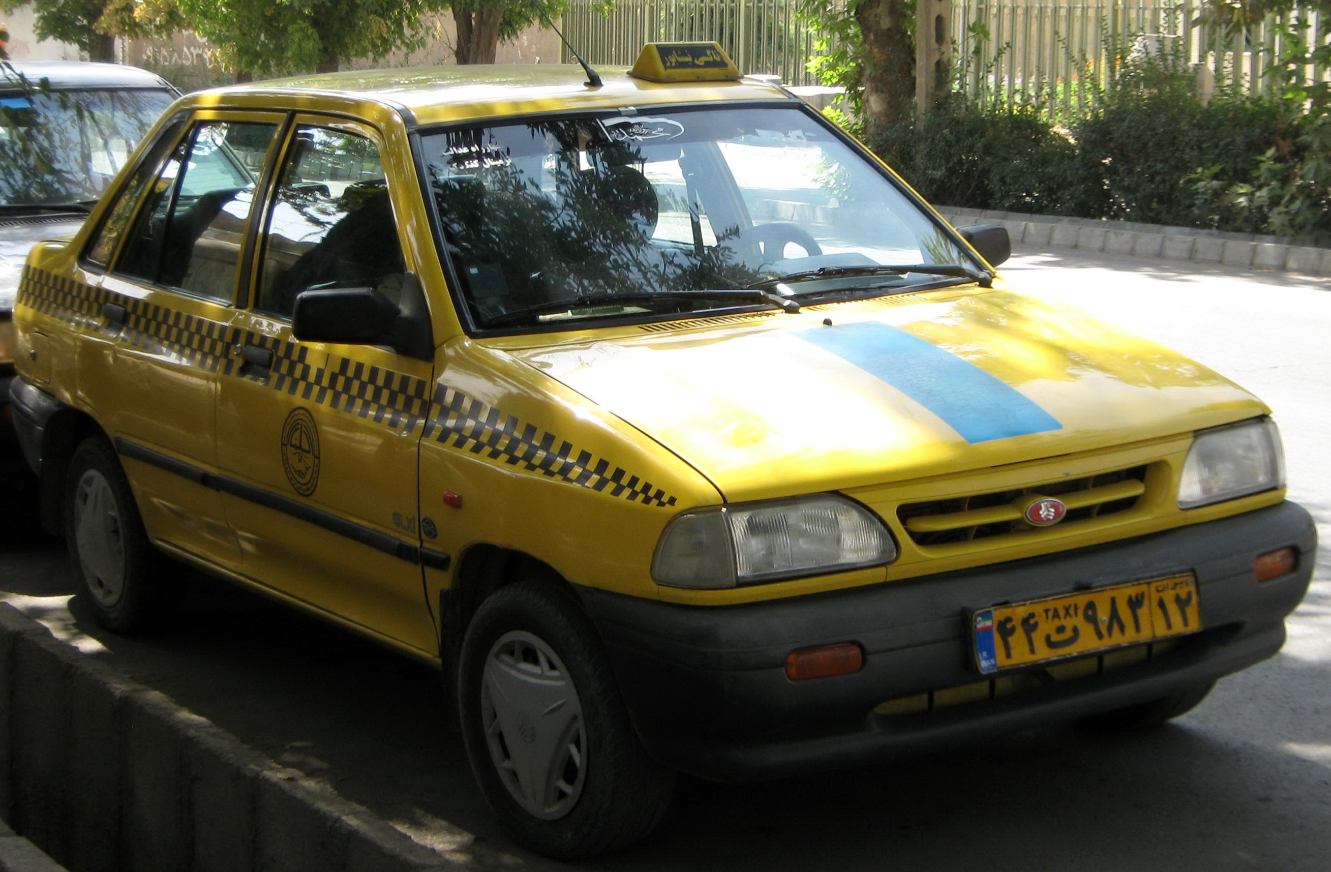 17 Shahrivar street photography - Nishapur